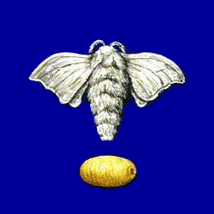 Flag of the city and municipality of Svilajnac in Serbia